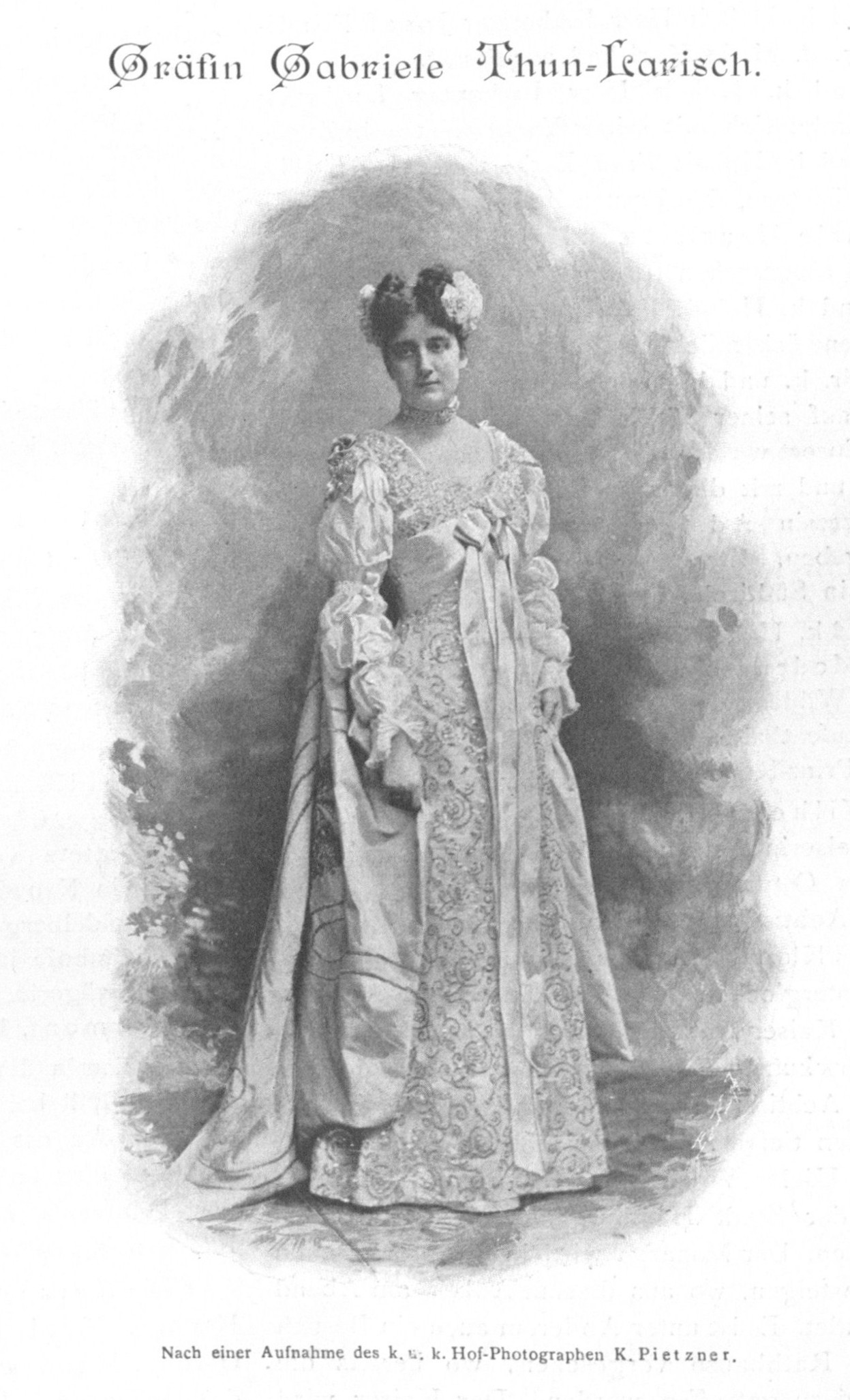 Gabriela von Thun und Hohenstein née Larisch (1872-1957), Austrian, later Polish noblewoman and philantropist.